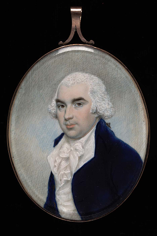 Alexander Robertson, Dr. William Beekman, ca. 1795, watercolor on ivory sight 2 7/8 x 2 3/8 in. (7.3 x 5.9 cm) oval Smithsonian American Art Museum